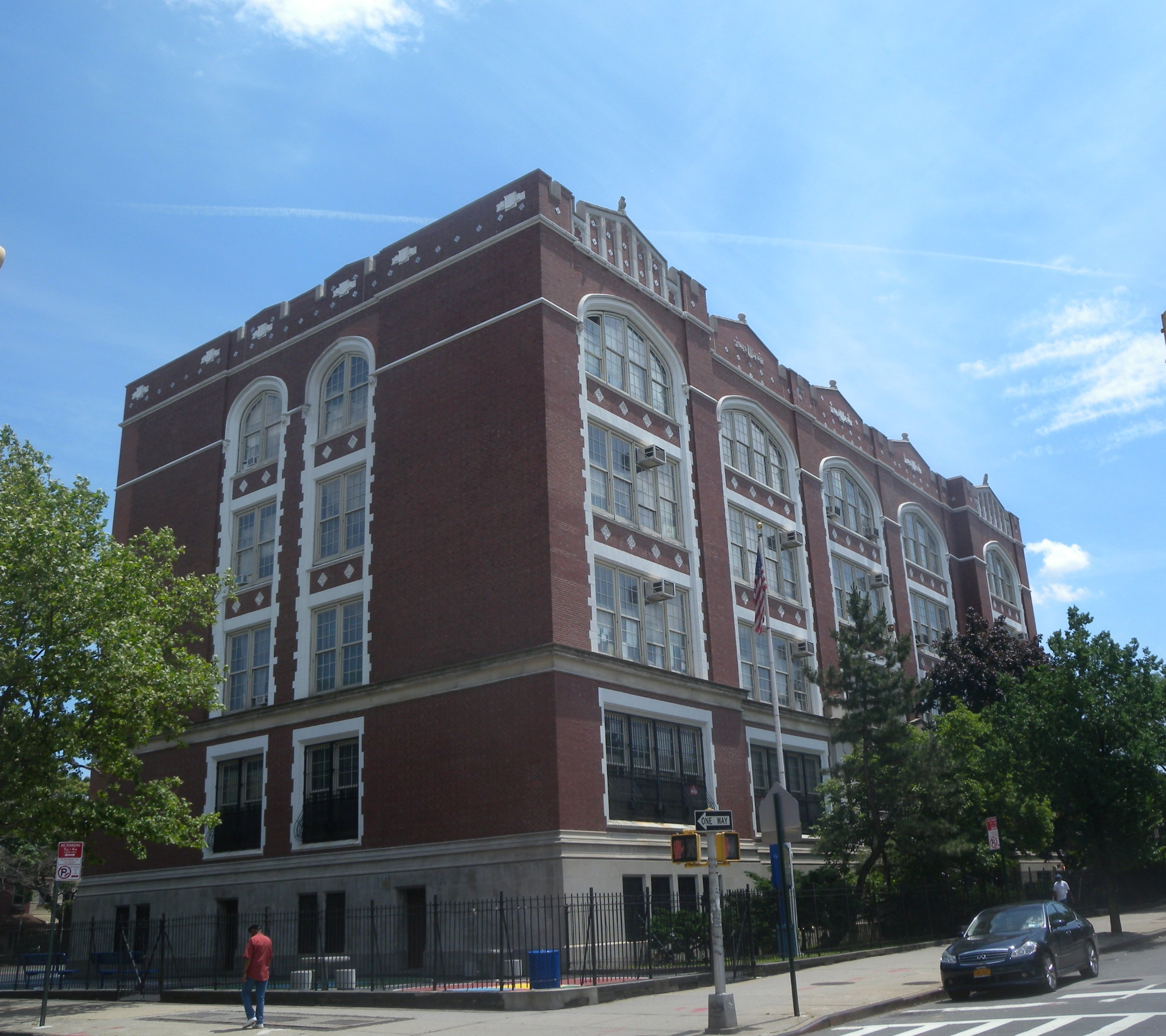 Looking southeast across New York Avenue and Herkimer Street at the Prescott School PS 93 on a sunny aftenoon. EXIF location is off by a block due to photographer's error.